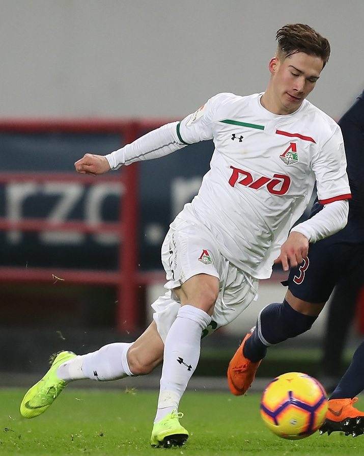 Roman Tugarev with FC Lokomotiv Moscow in a game against FC Yenisey Krasnoyarsk.